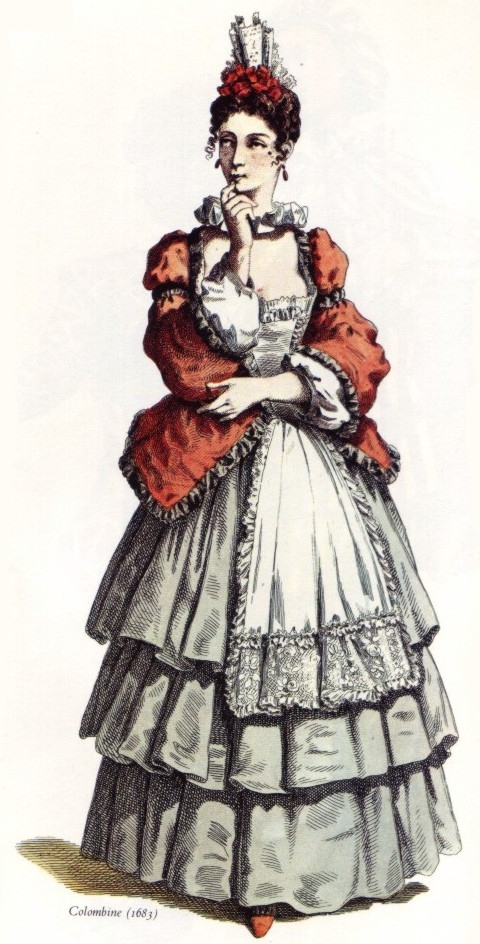 Columbine, year 1683 (a mid-19th century costume imitating late 17th century styles, including fontange); losslessly cropped from original